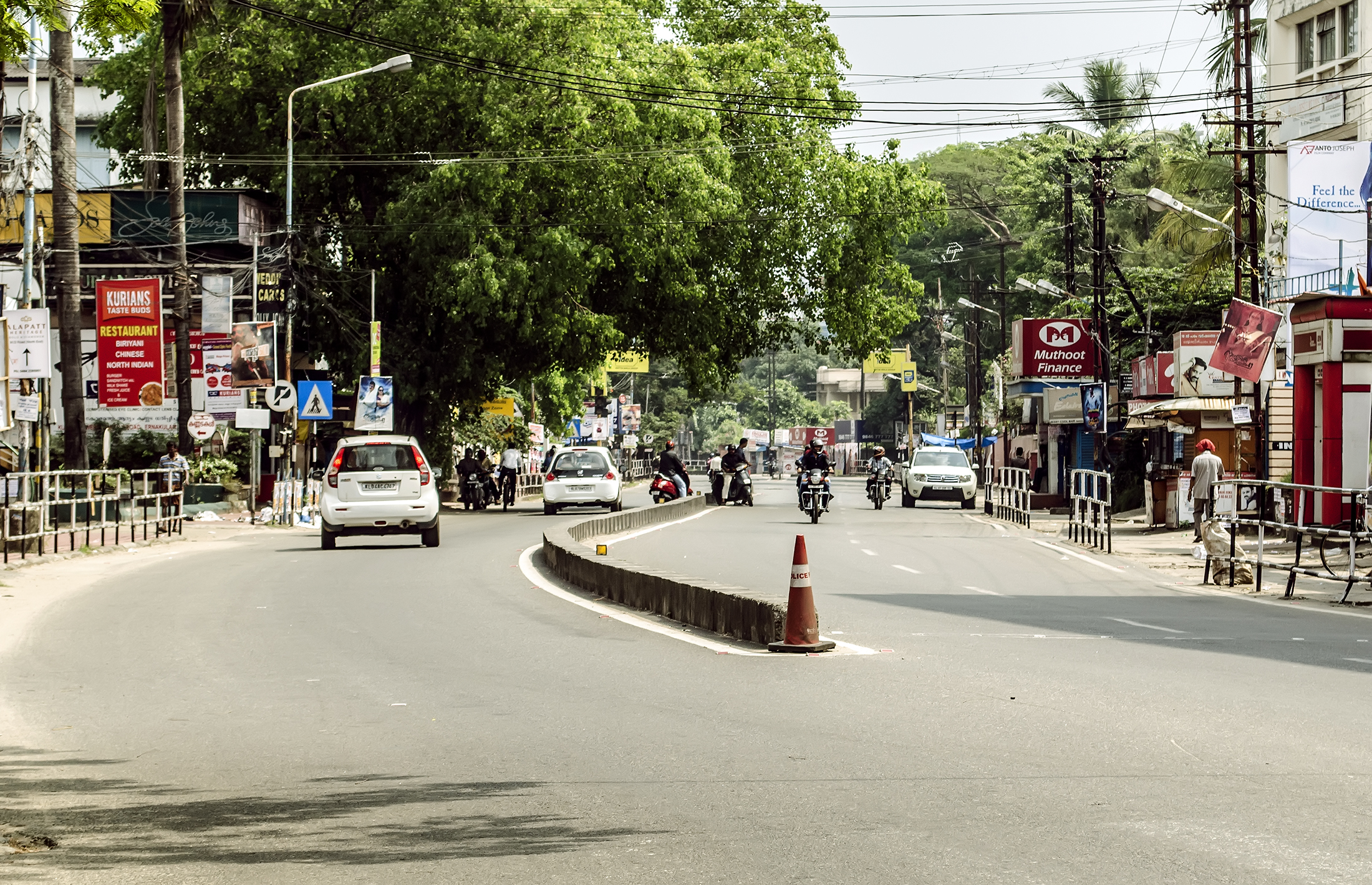 An empty view of Banarji Road Kochi